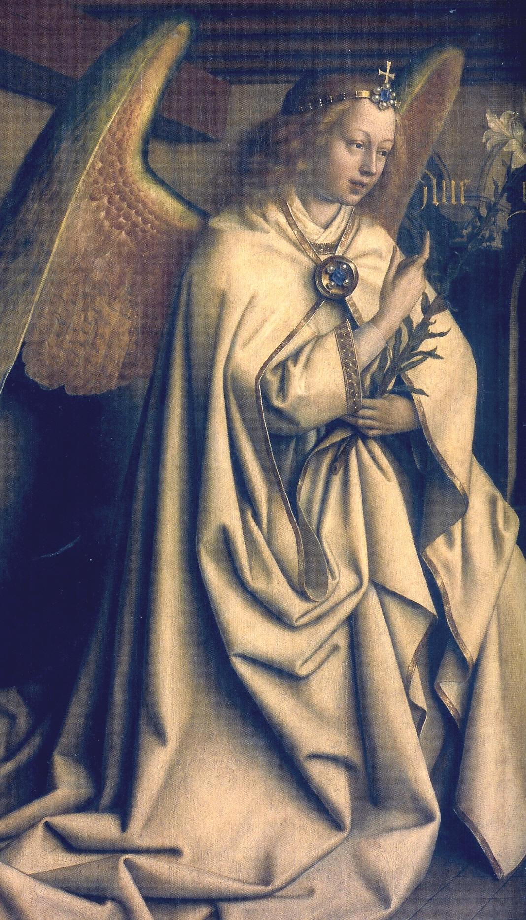 detail: Archangel Gabriel message to Mary